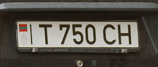 car lic plate from Transniestria